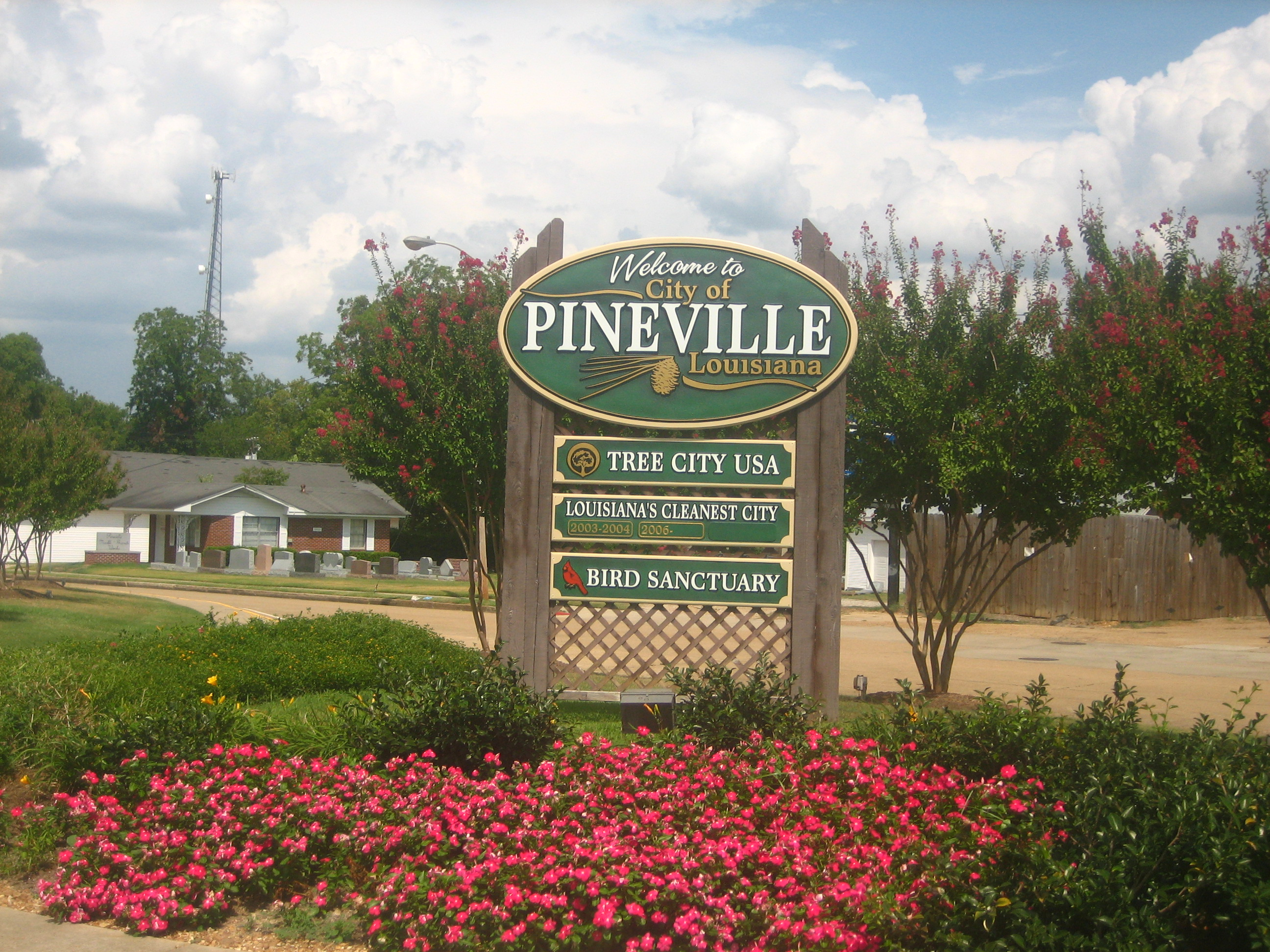 Pineville, Louisiana.